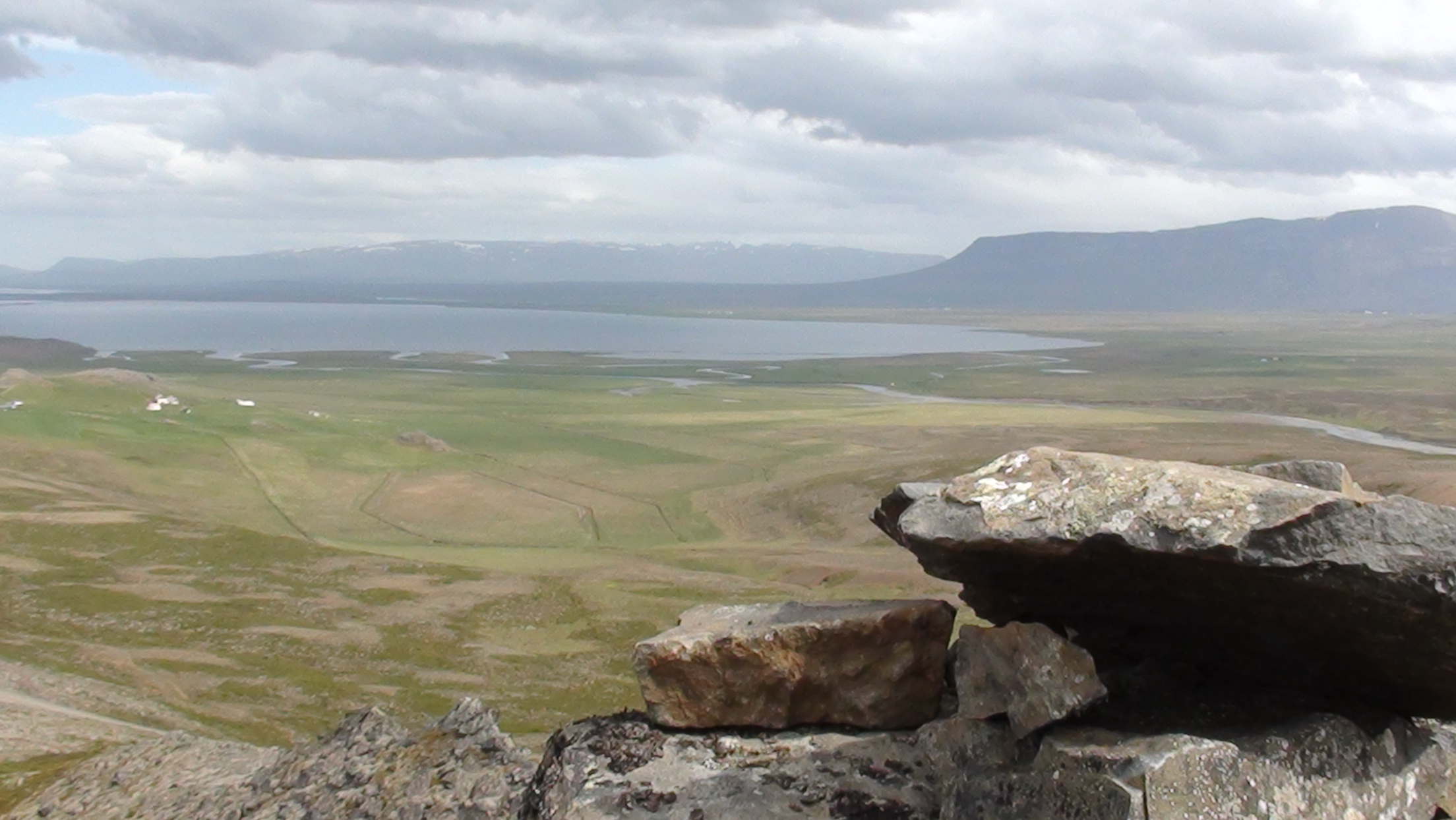 I visited Iceland a while go, and took the opportunity to take a few pictures. This is a picture of the view from a quite high altitude at Borgarvirki in Iceland.